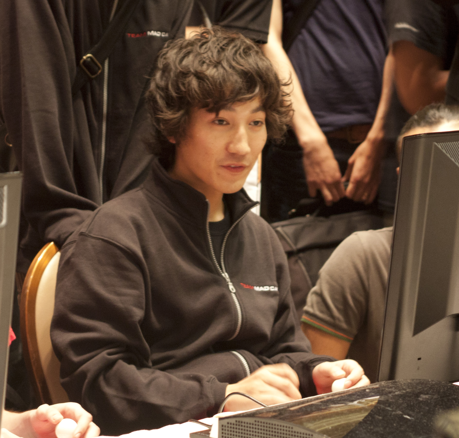 Depicted person: Daigo Umehara – Japanese electronic sports player